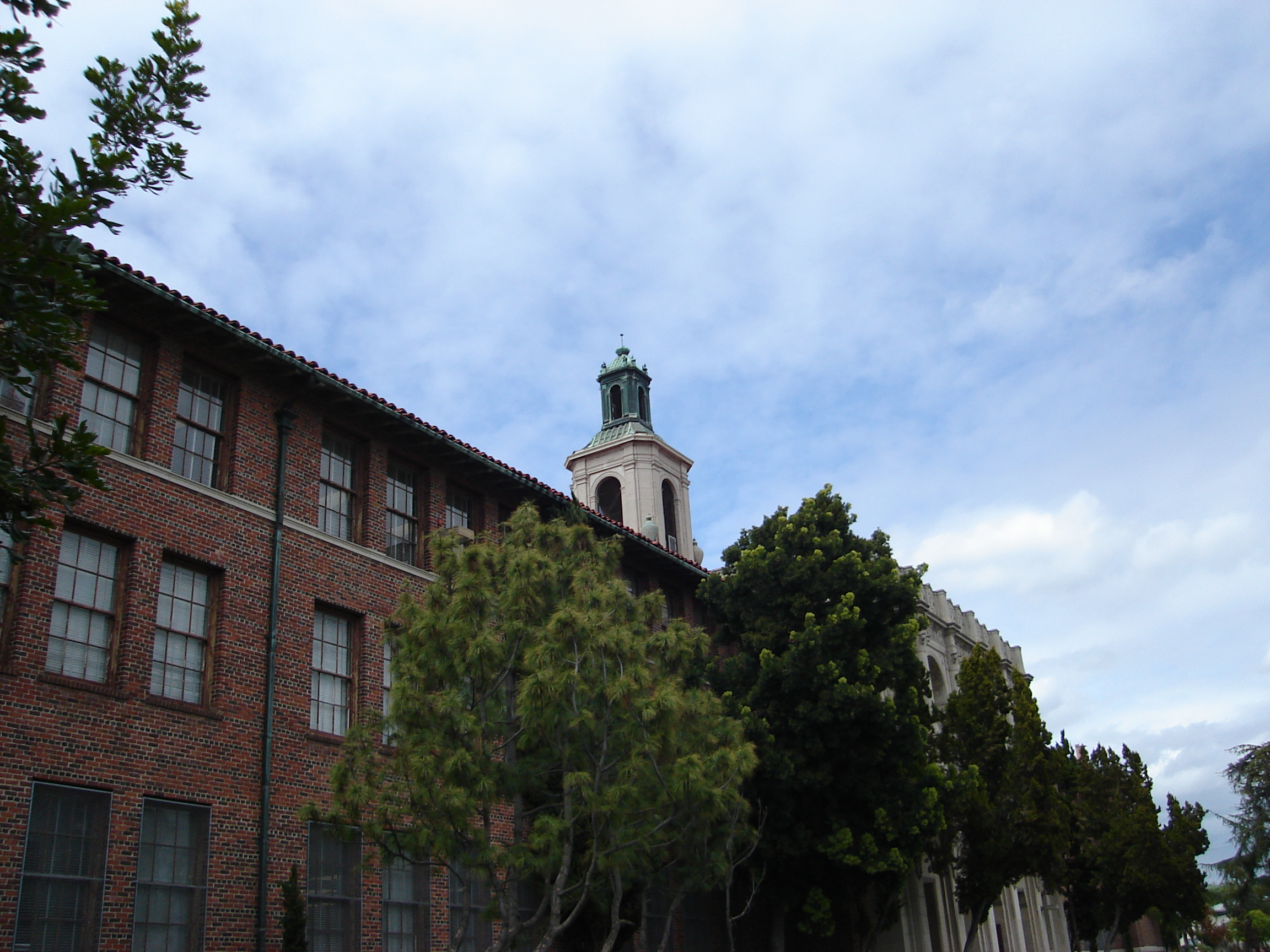 Hamilton High School entrance in Los Angeles, CA